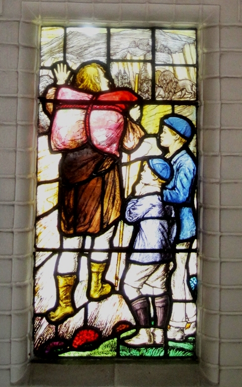 Reginald Hallward stained glass window in the chapel of Chigwell School. Christian faces the road to temptations in "Pilgrim's Progress"